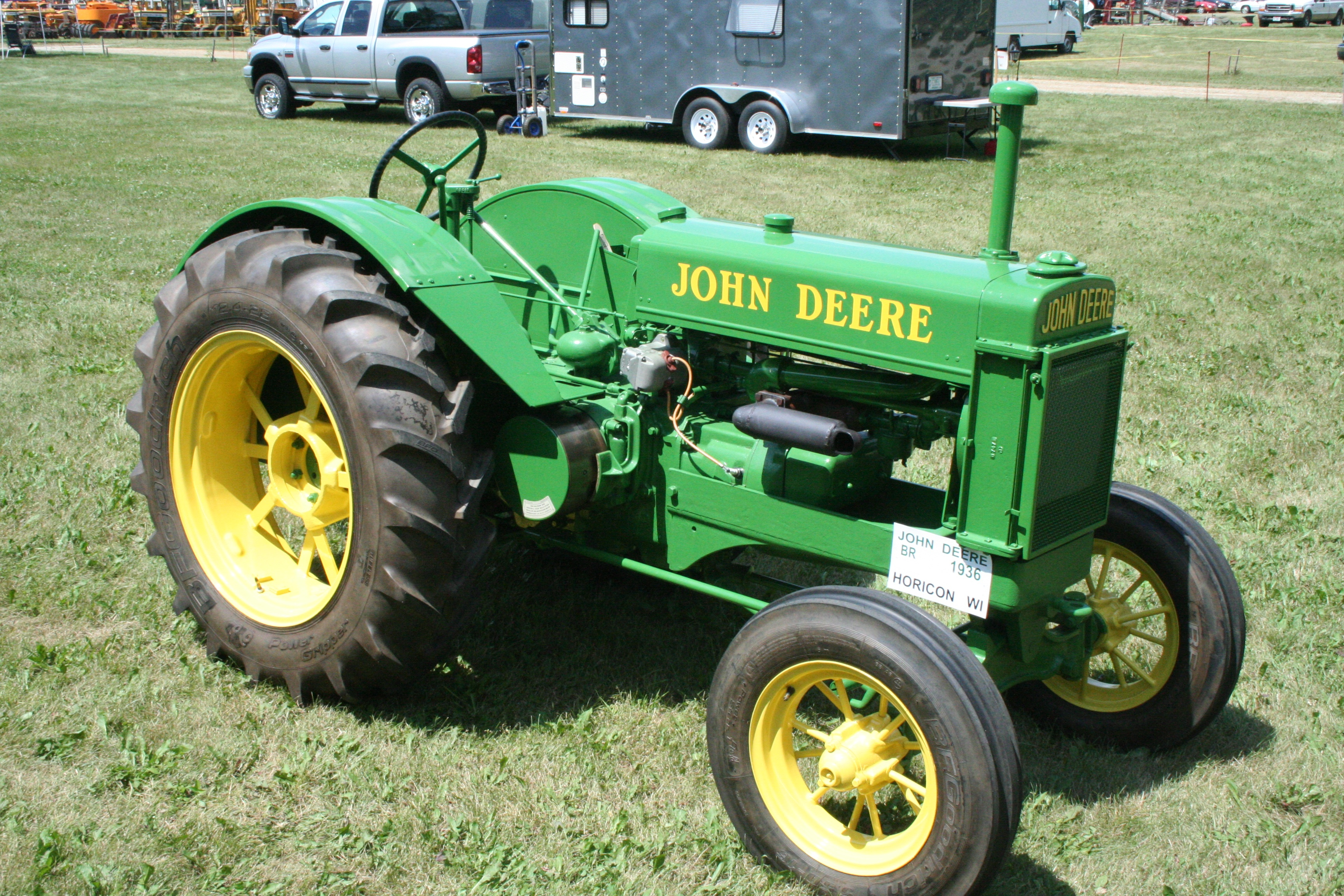 1936 John Deere BR the 2008 Dodge County Antique Power Show.